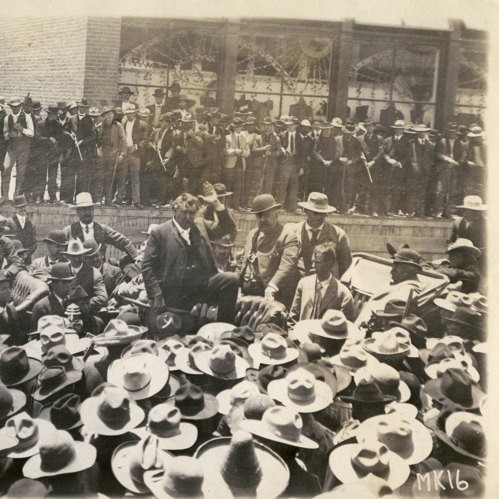 Colonel William C. Greene addressing crowd of Mexican workers during miners' strike, 1906, Cananea, Mexico. Enlargement of part of original photo.